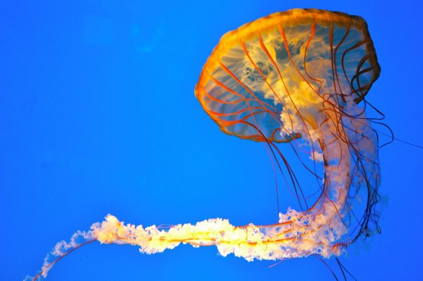 Pacific Sea Nettle, Baltimore, MD Aquarium